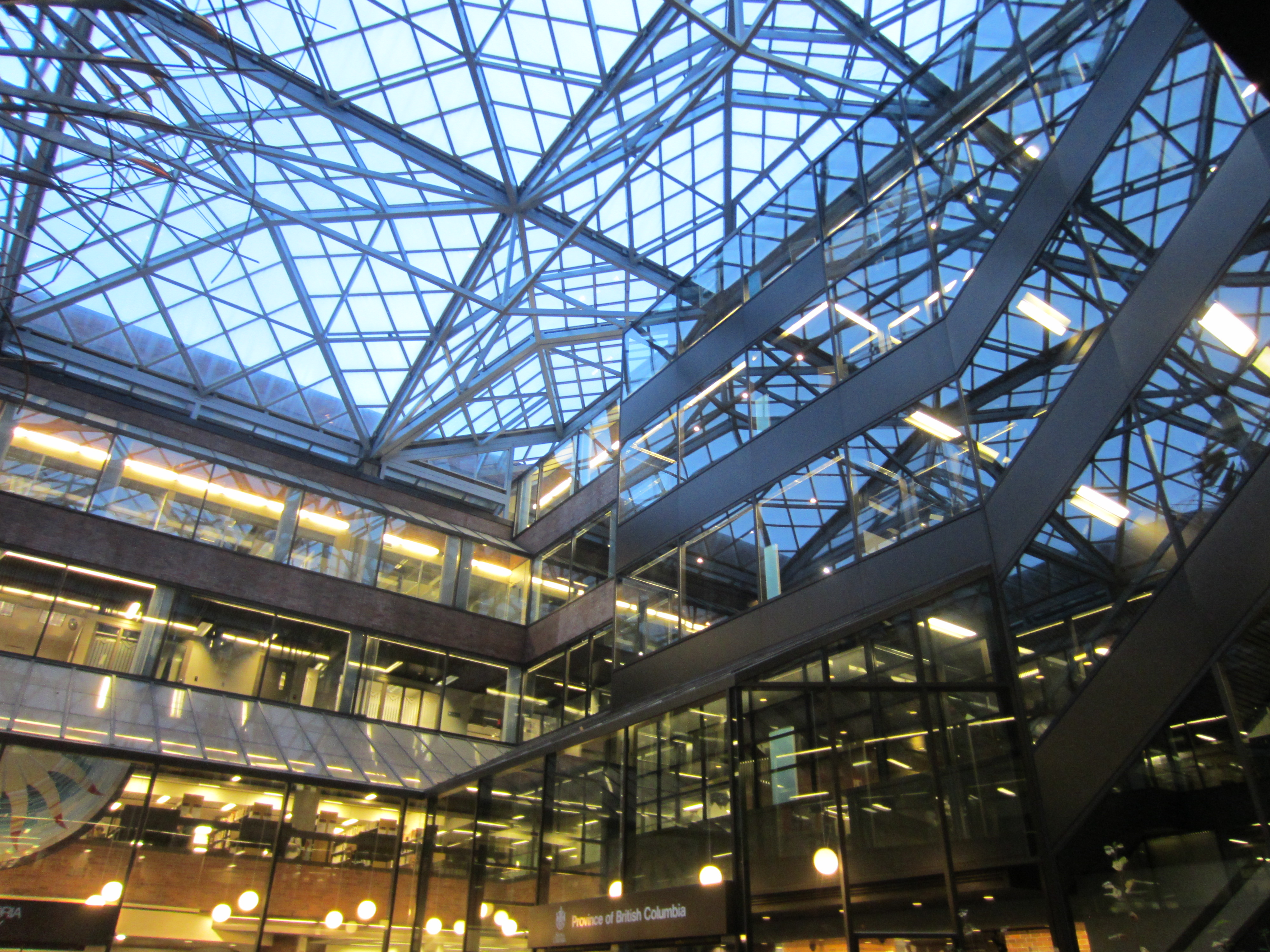 Victoria, British Columbia in December 2012